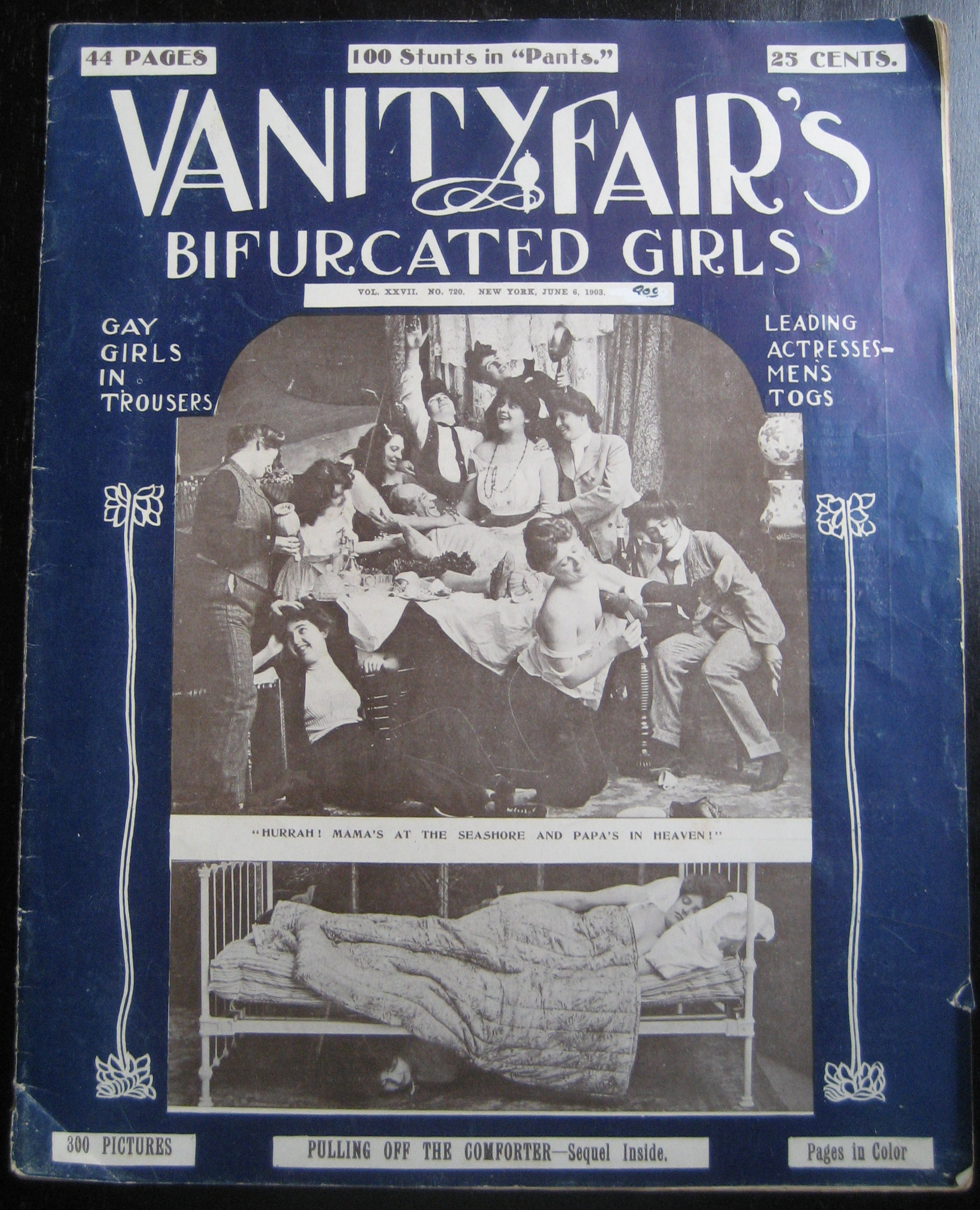 Cover of "Vanity Fair" Magazine "Bifurcated Girls" issue, cover publication date June 6 1903